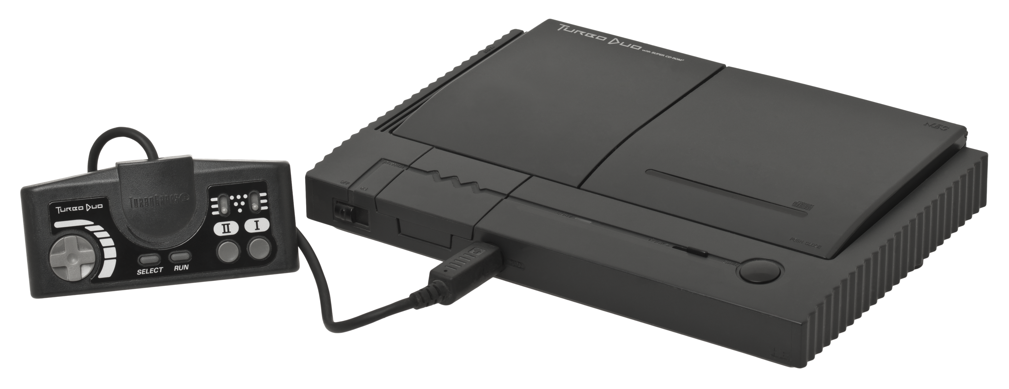 The TurboDuo and controller. A video game console made by NEC, this is the combination of TurboGrafx-16 and TurboGrafx-CD consoles in one machine.